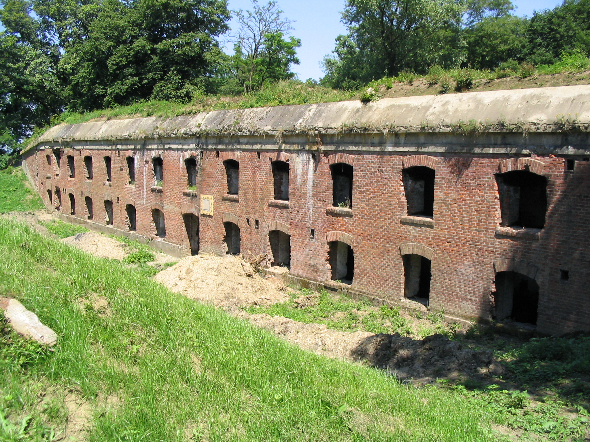 Fort XV "Borek" Author: Goku122